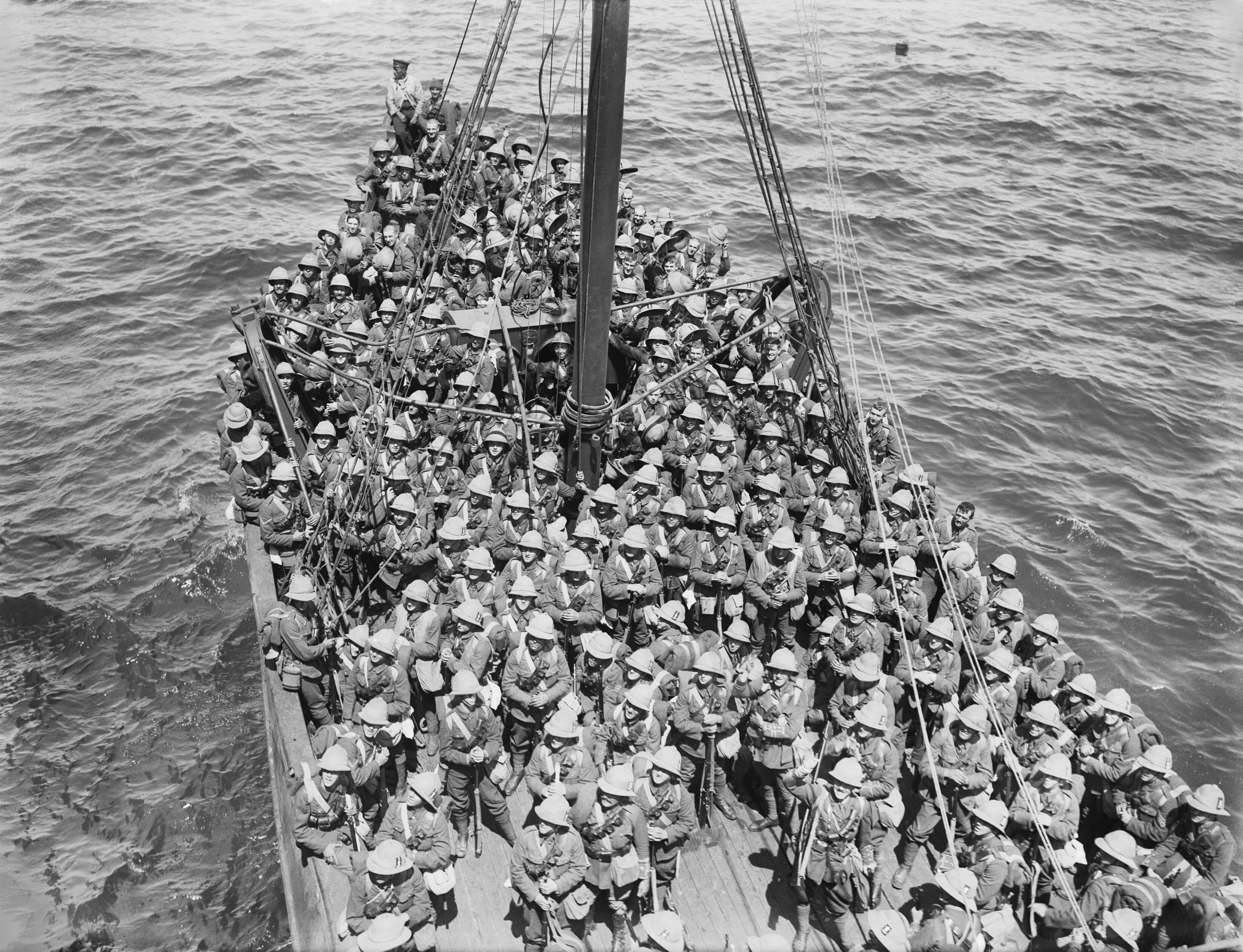 Lancashire Fusiliers of the 125th Brigade, 42nd (East Lancashire) Division, bound for Cape Helles, Gallipoli, May 1915. The soldiers have just disembarked aboard Trawler 318 from the transport SS Nile, from the deck of which the photo was taken.